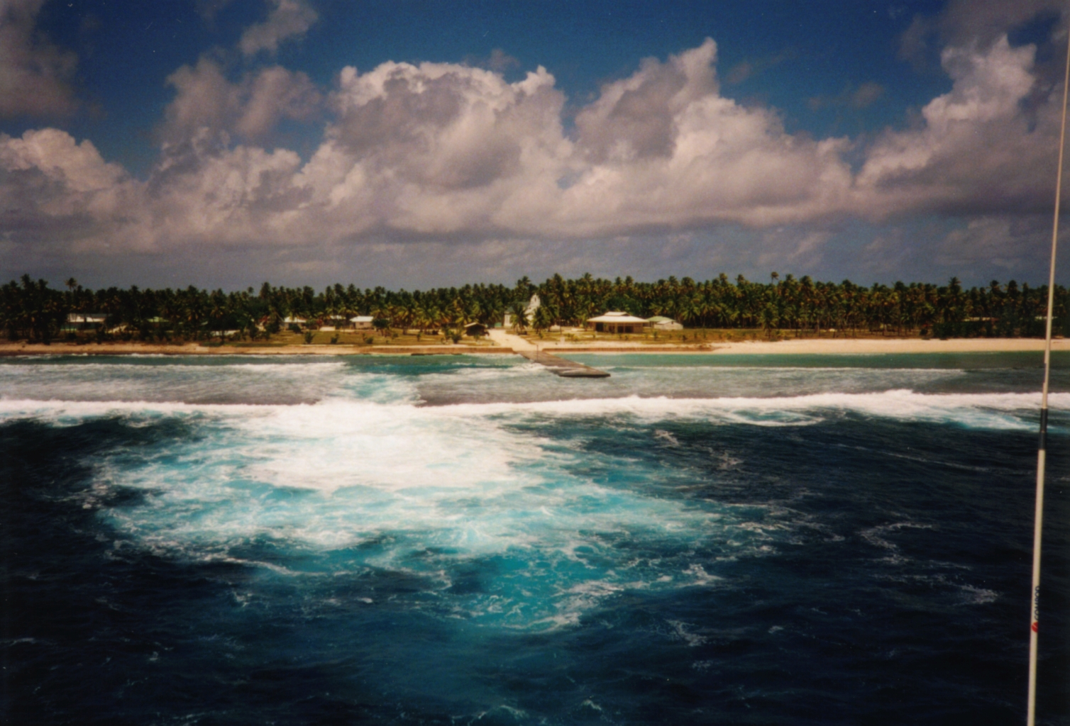 Approaching Puka-Puka atoll, Tuamotu Archipelago, French Polynesia